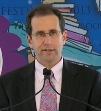 Author and Washington Post editor Fred Hiatt speaks at the 2013 National Book Festival in Washington, D.C.